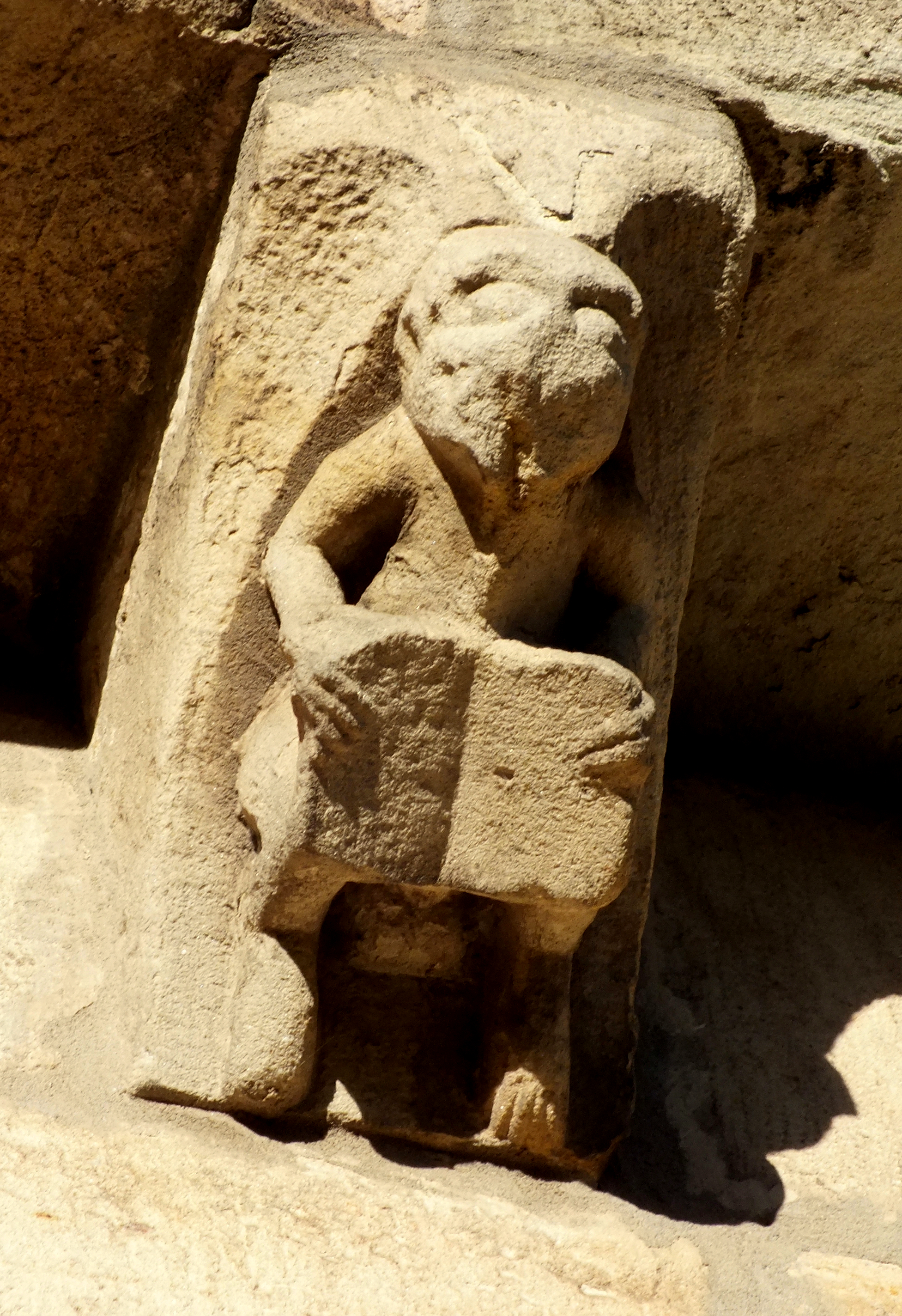 Yermo église Santa Maria